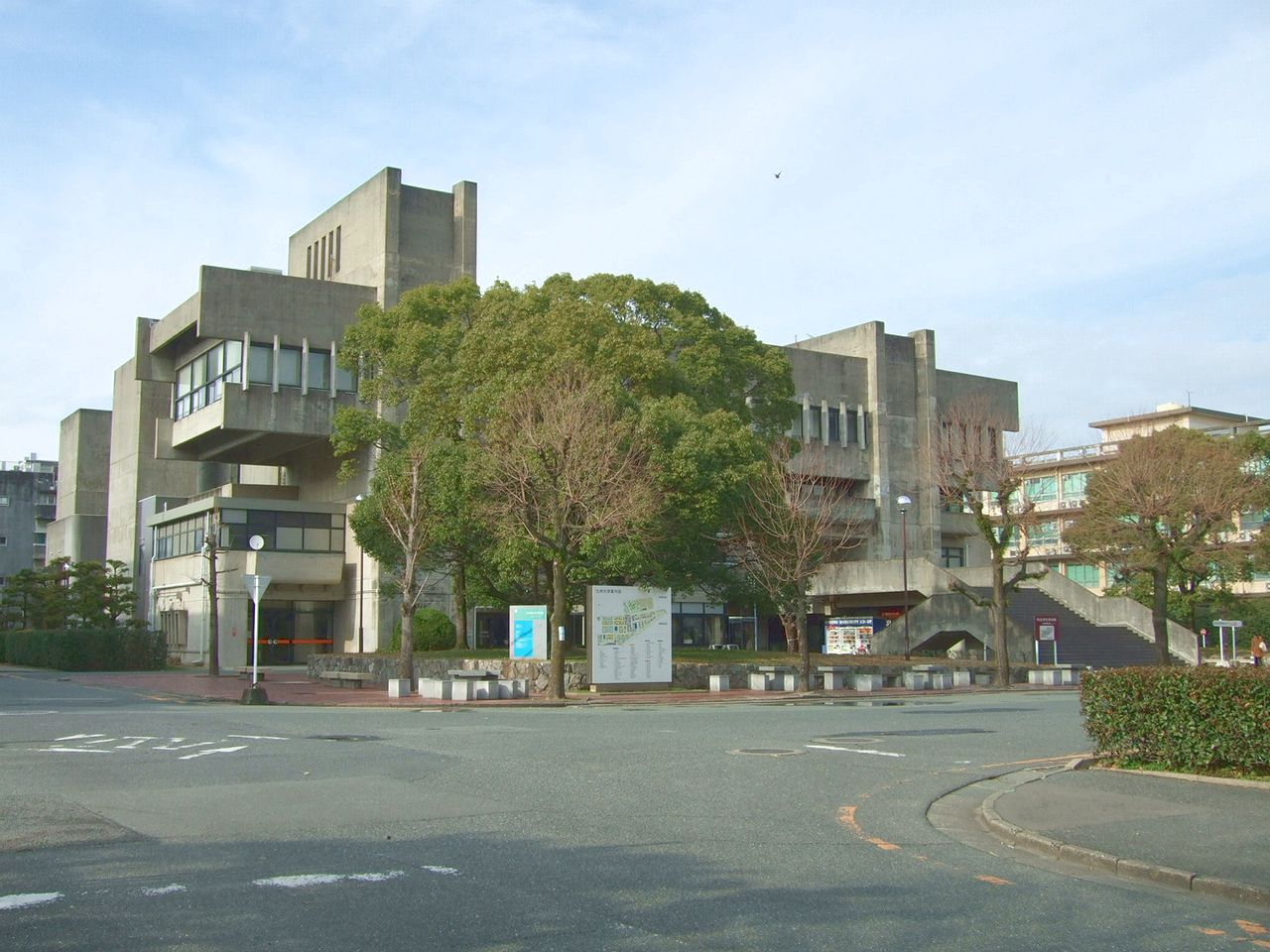 50th Kyushu University anniversary hall, Kyushu University Hakozaki Campus, Higashi Ward, Fukuoka City, Fukuoka, Japan.